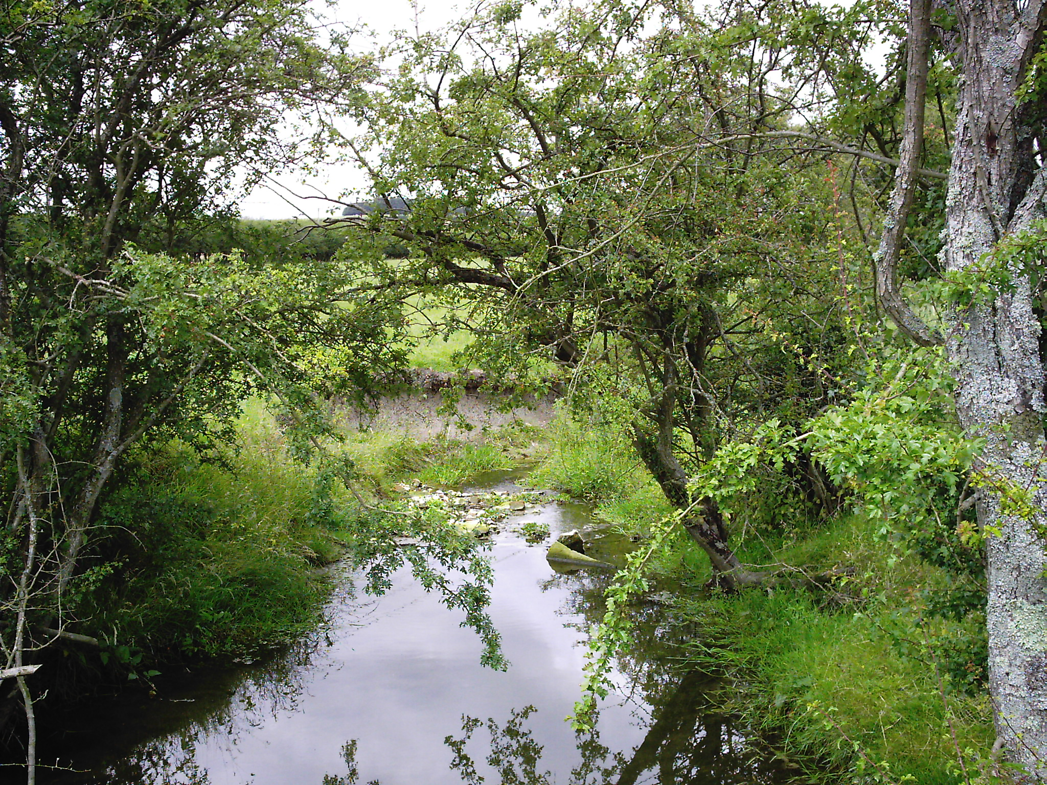 River Wey near its north source at Farringdon, Hampshire